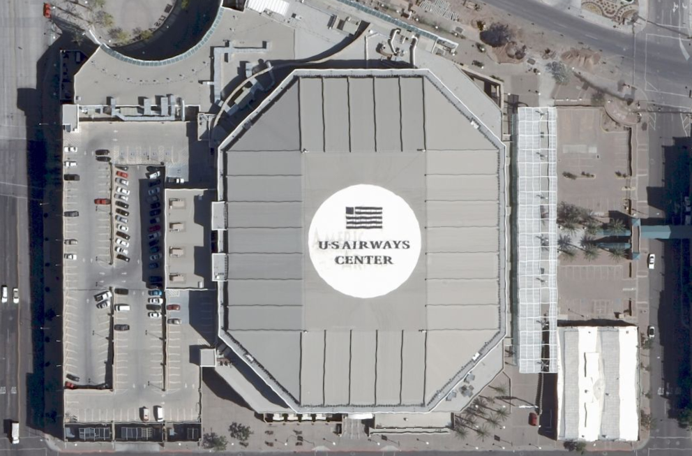 US Airways Center satellite view, nasa world wind 1.3.5